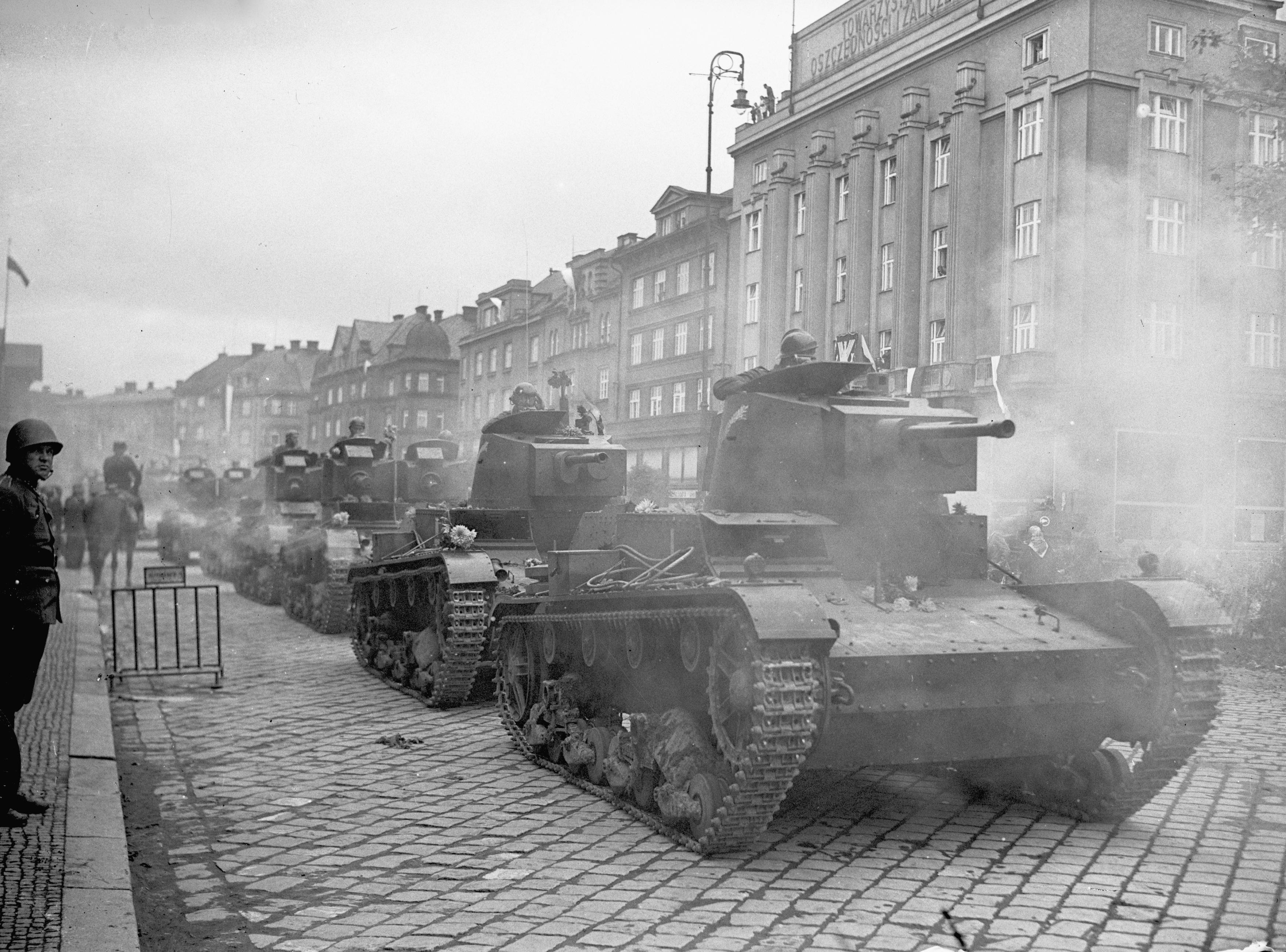 Polish Army capturing Český Těšín (Czeski Cieszyn), Zaolzie in 1938 (7TP tanks)